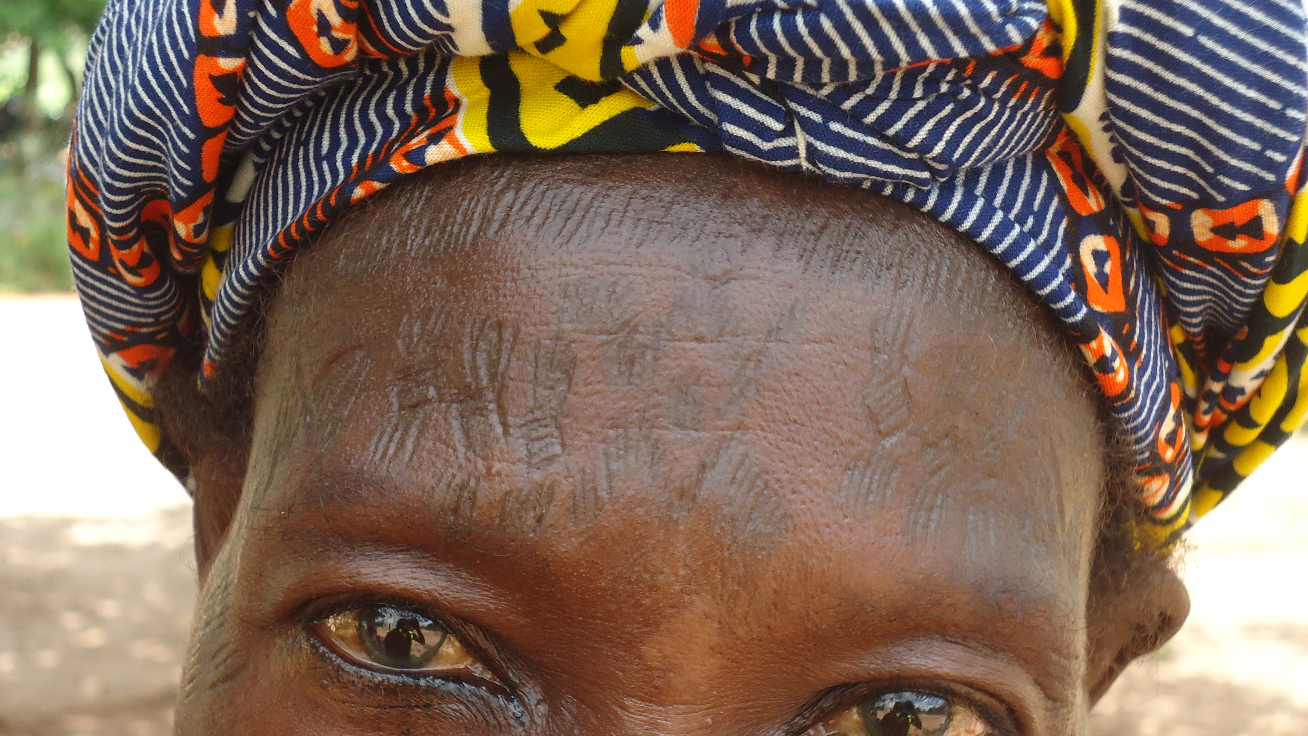 The image of indigenous Tattoo of a Yoruba woman on the forehead This is an image of Cultural Fashion or Adornment from Nigeria